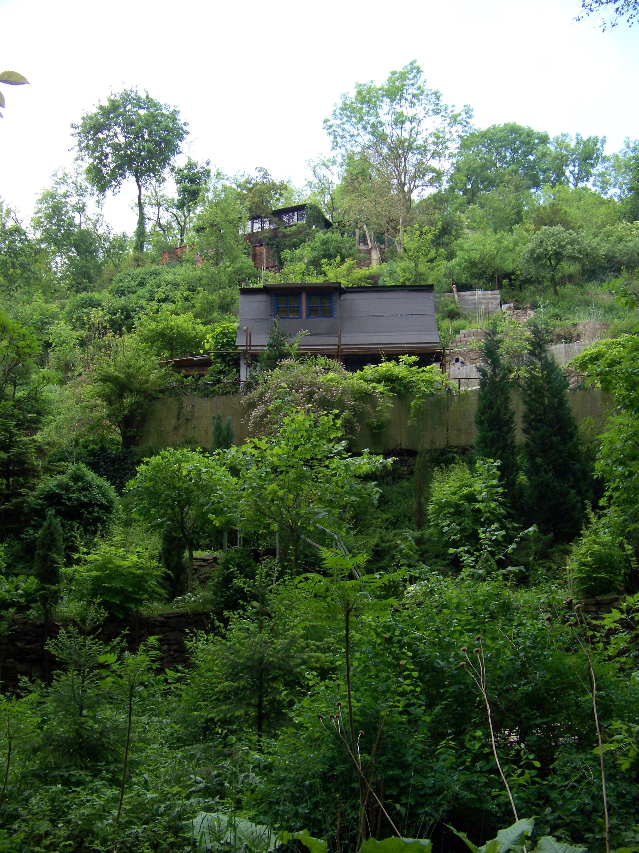 Zdiby-Brnky, Czech Republic. Drahan Valley, Draháňské údolí E274 and E130.